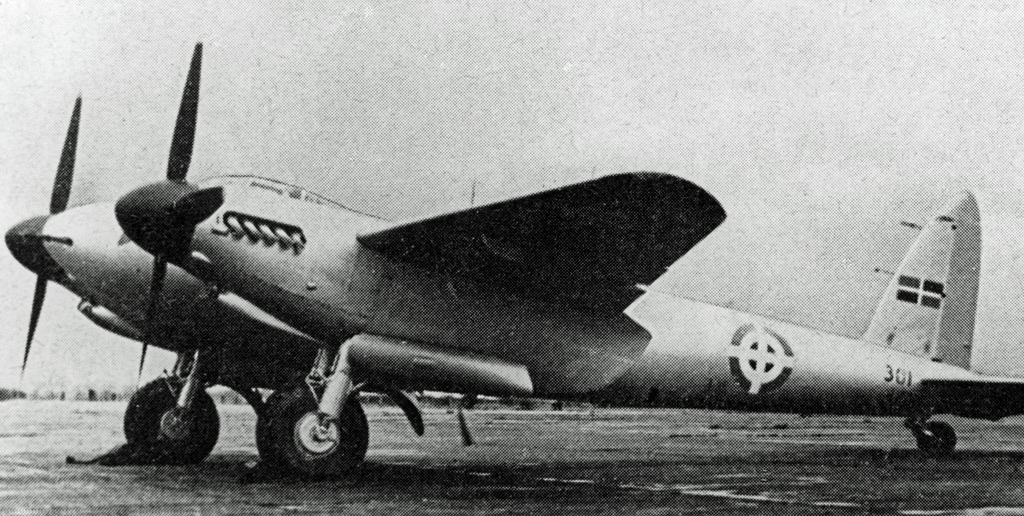 De Havilland Mosquito FB.6 ex RAF after overhaul by Fairey Aviation at Manchester (Ringway) Airport for delivery to the Dominican Air Force